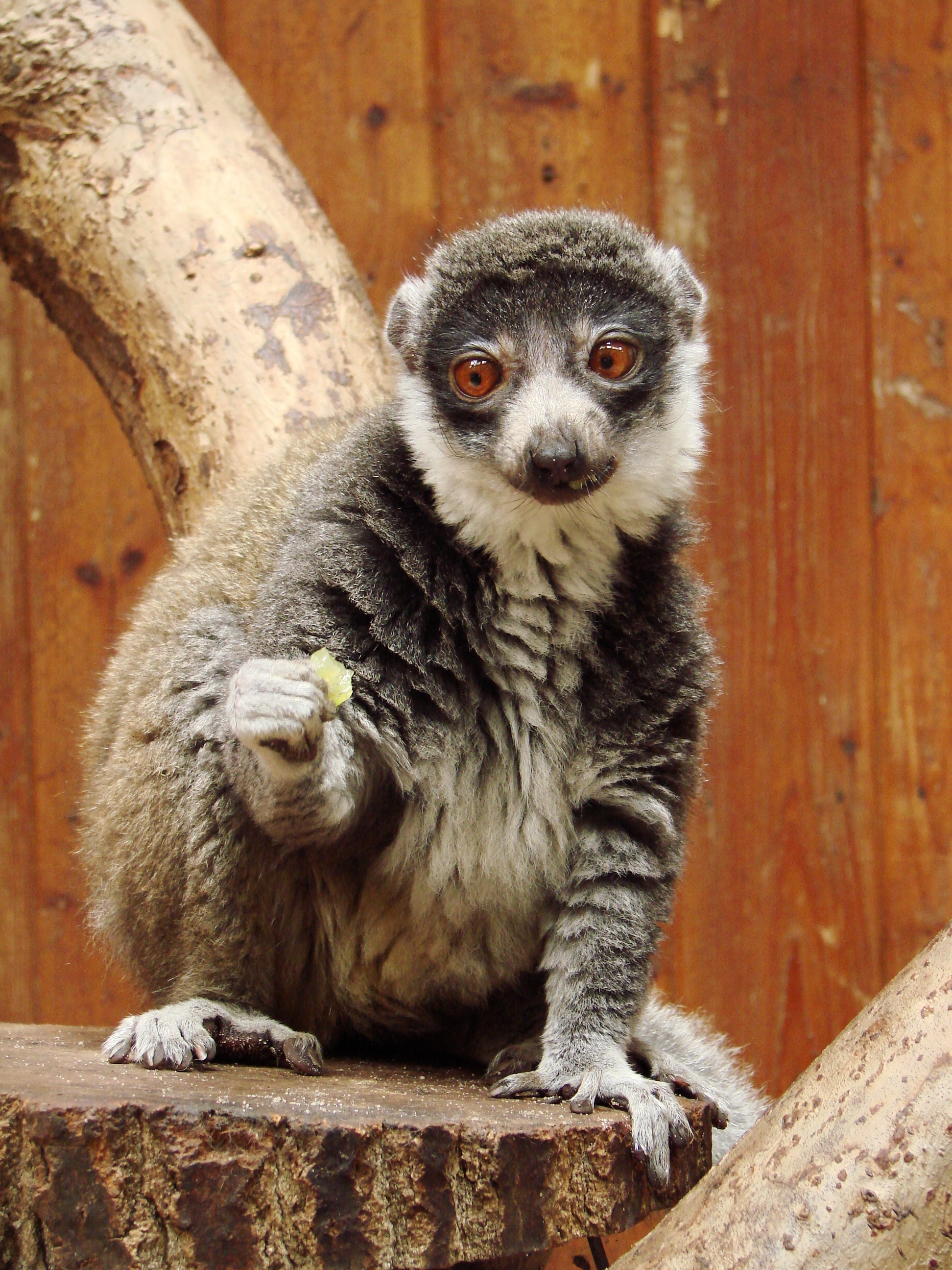 Picture taken in the zoo of Wrocław (Poland): Eulemur mongoz (Linnaeus, 1766)